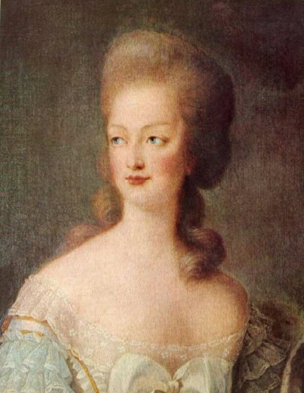 Preparatory drawing for the famous official portrait of Marie Antoinette; painted in 1778 by Élisabeth-Louise Vigée-Le Brun.